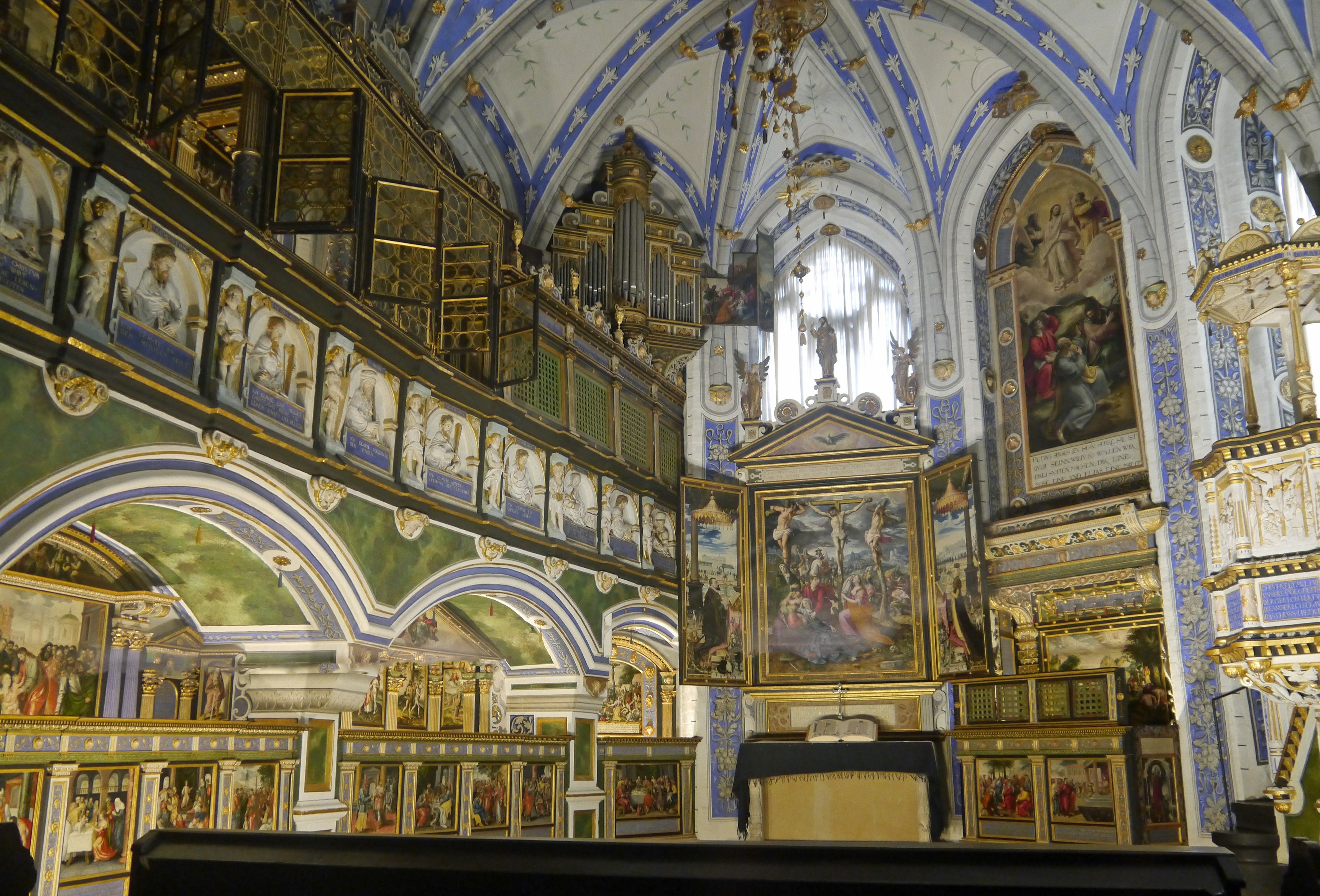 Nave of the Castle Church, Celle